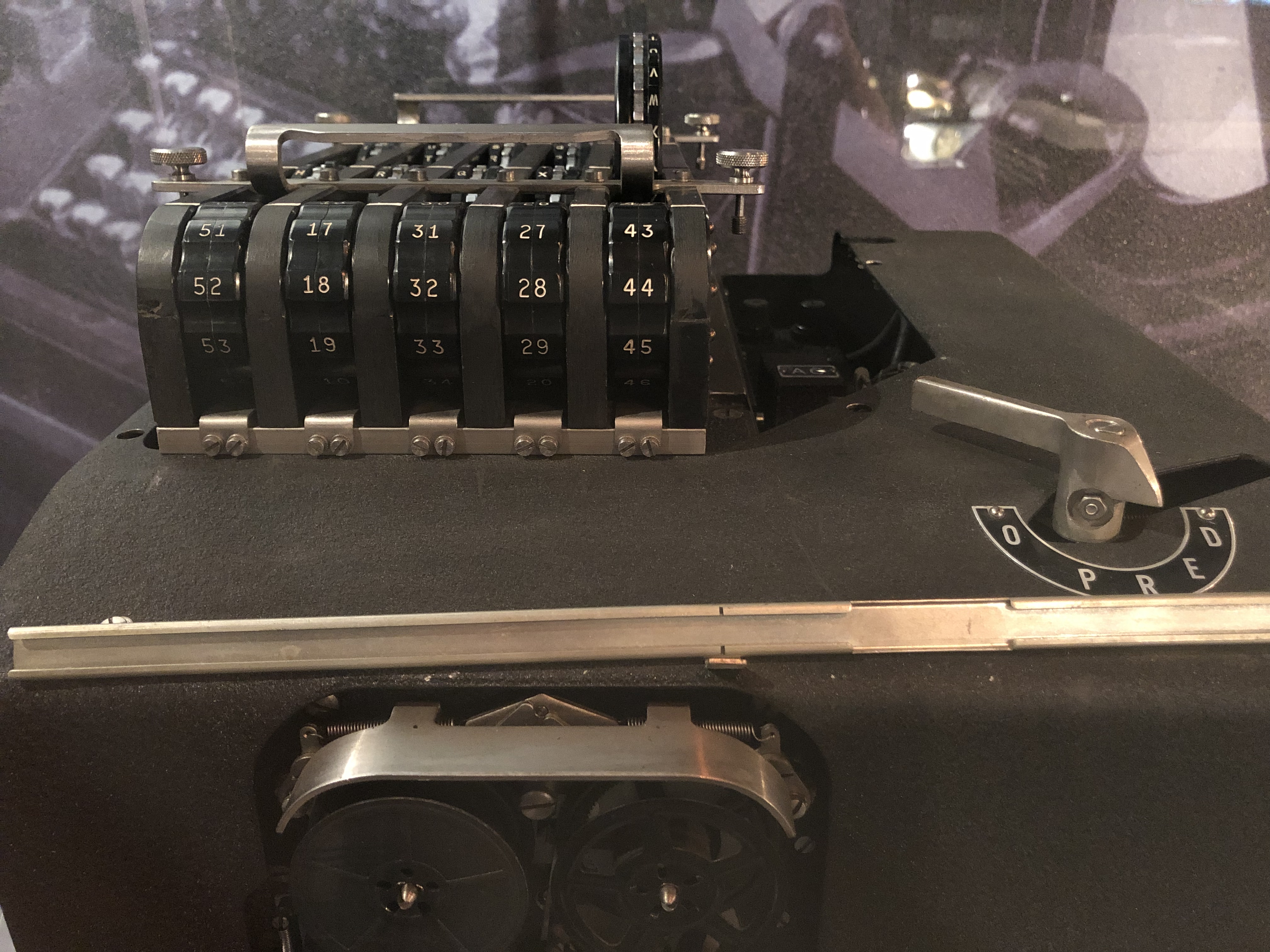 Top view of SIGABA cipher machine on display at the U.S. National Cryptologic Museum. The cipher unit, CSP-887, with the code and index wheels, has been removed and is on top of the SIGABA housing. Note the Controller switch at right. It has five positions:[1]:p. 19 O—Off P—Plain text, each character typed is printed on the output tape. Used to type indicators and date/time groups before and after encrypting a message. R—Reset, used when adjusting settings and zeroizing, nothing is printed E—Encrypt D—Decrypt